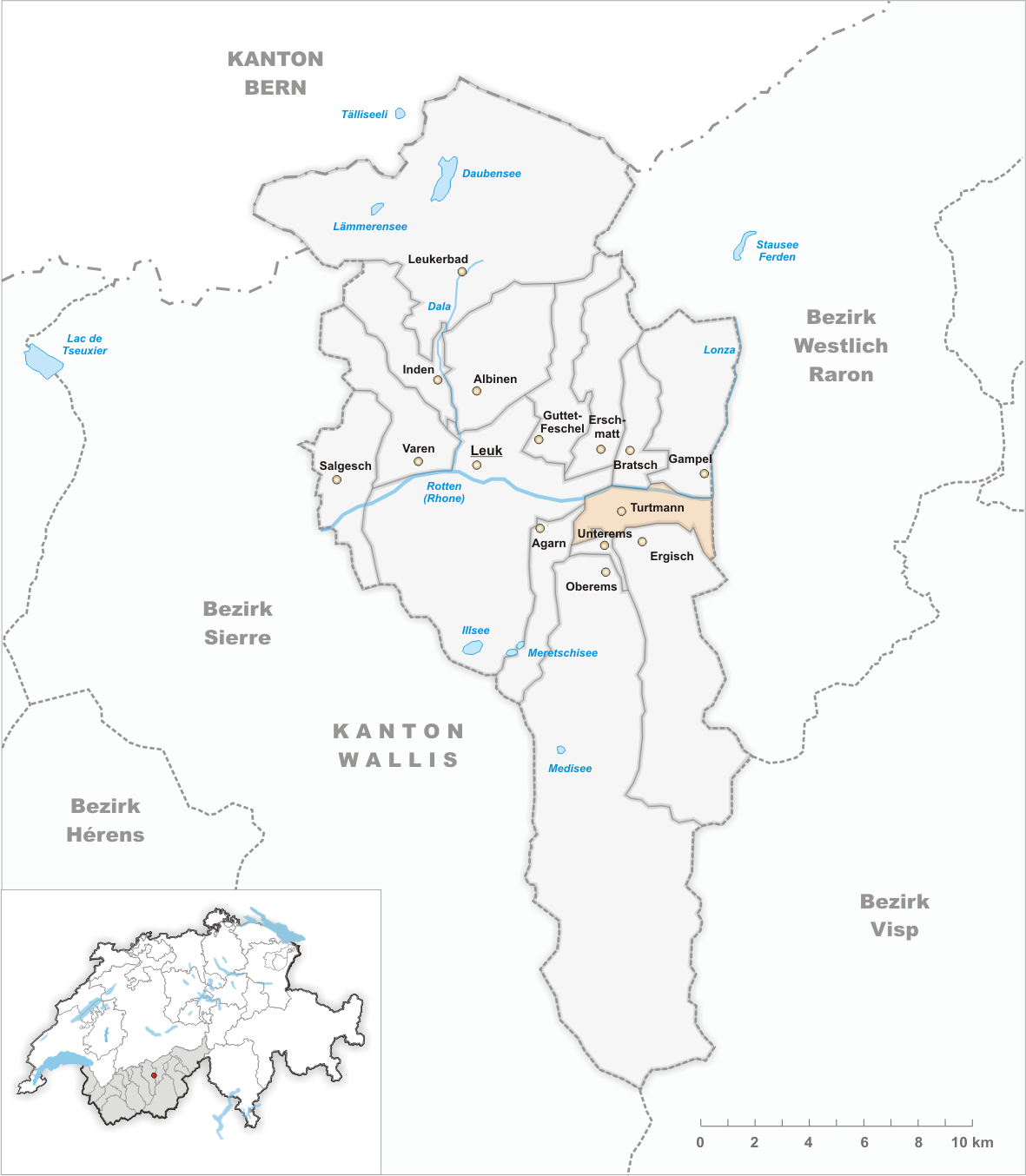 Municipality Turtmann